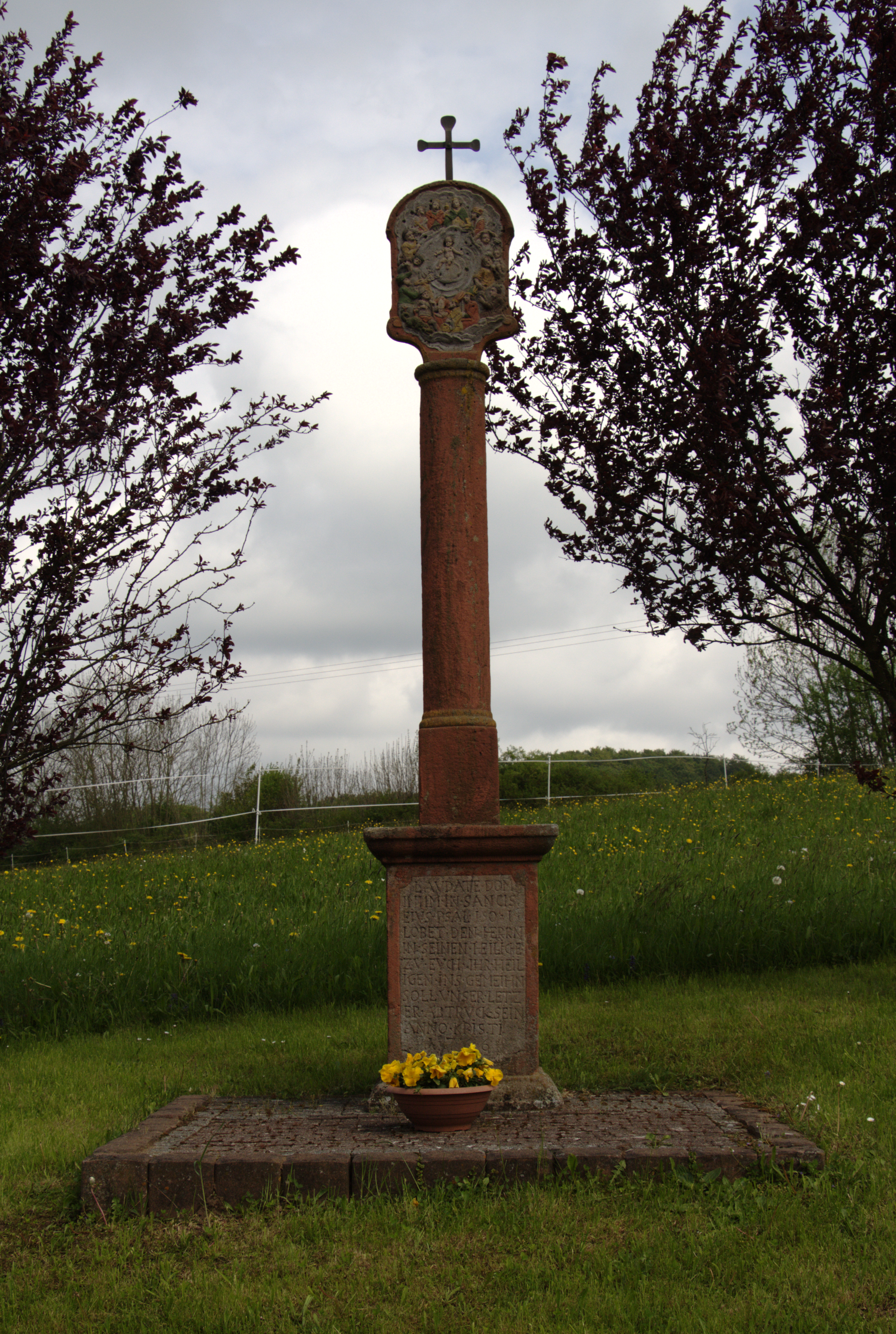 Wayside shrine in Jossa Am Bildstock, Hosenfeld, Hessen, Germany